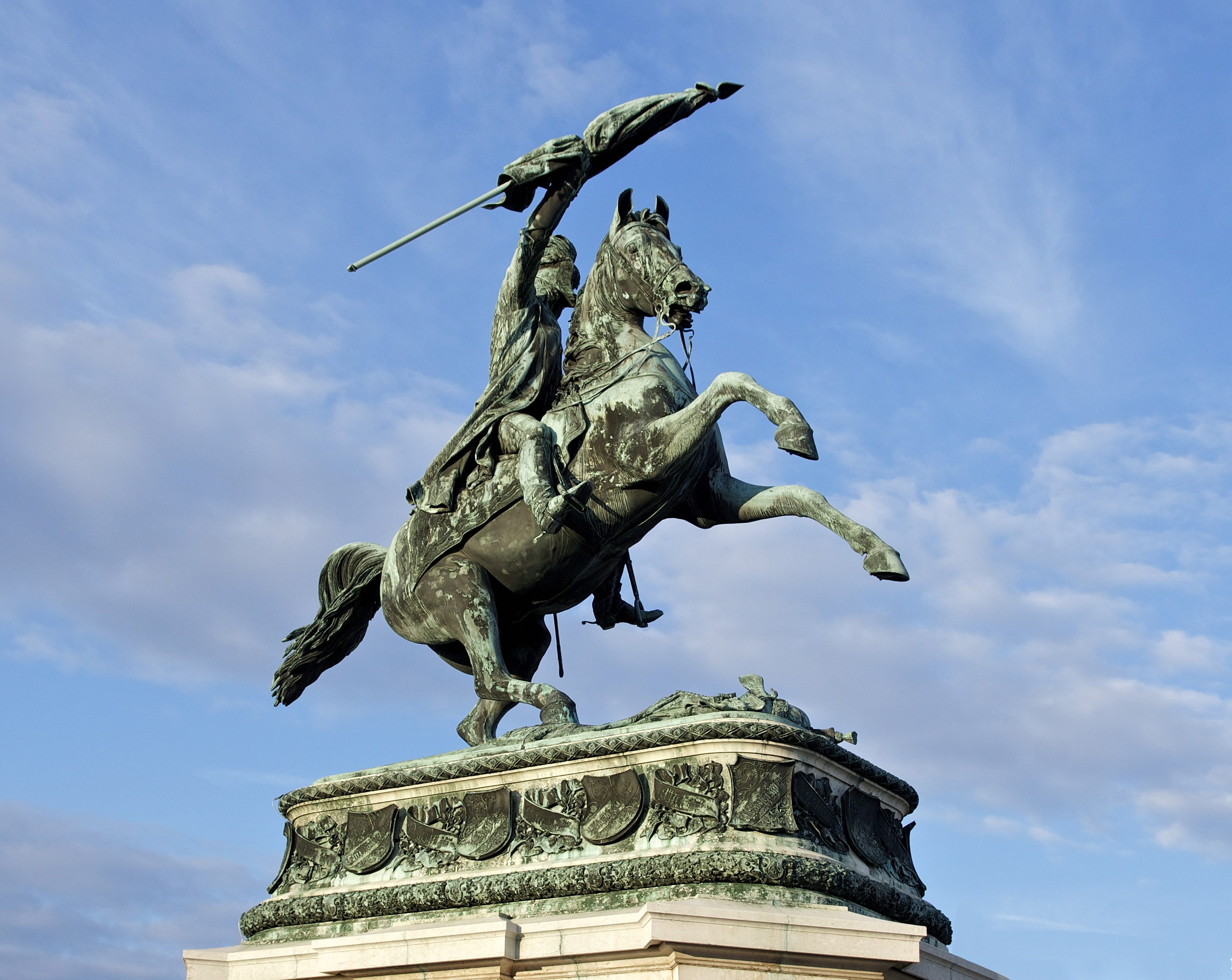 Statue of Archduke Charles, Heldenplatz, Hofburg, Vienna, Austria.